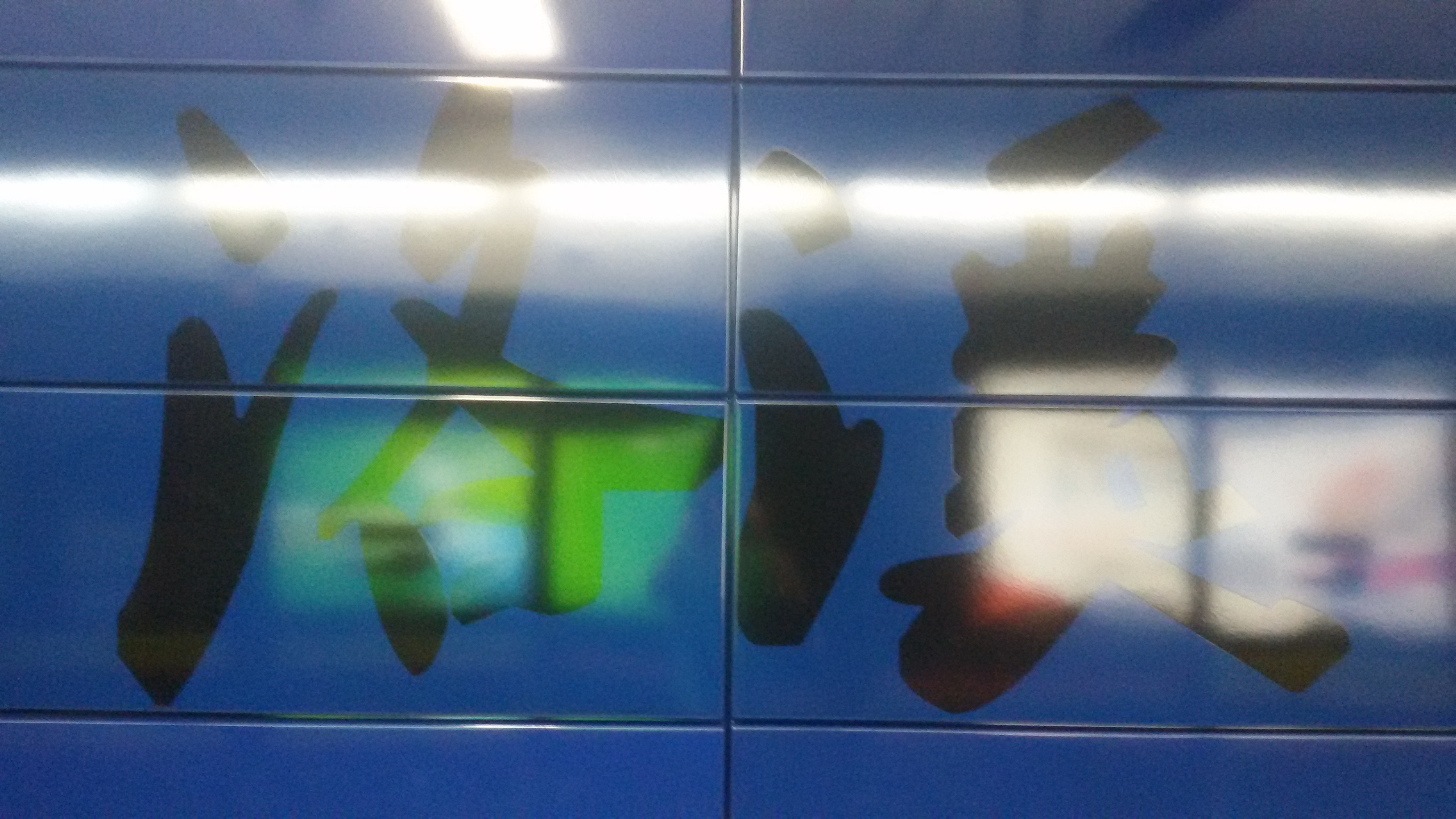 STATION WORD IN LUOXI STATION 粵語: 洛溪站入面嘅大字